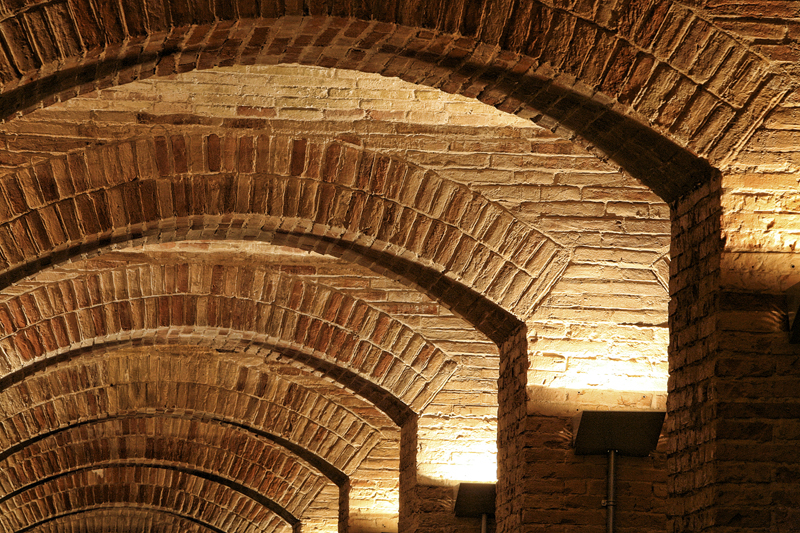 MhV arcs